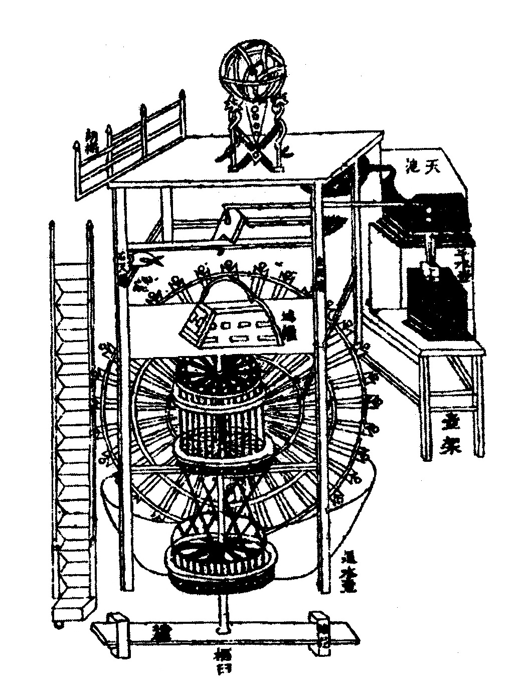 Chinese mechanical and horological engineering from the Song Dynasty; this diagram provides an overall general view of the inner workings and armillary sphere of Su Song's clocktower built in Kaifeng. The drawn illustration comes from Su Song's book Xin Yi Xiang Fa Yao published in the year 1092. On the right is the upper reservoir tank with the 'constant-level tank' beneath it. In the center foreground is the 'earth horizon' box in which the celestial globe was mounted. Below that are the time keeping shaft and wheels supported by a mortar-shaped end-bearing. Behind this is the main driving wheel with its spokes and scoops. Above that are the left and right upper locks with an upper balancing lever and upper link.